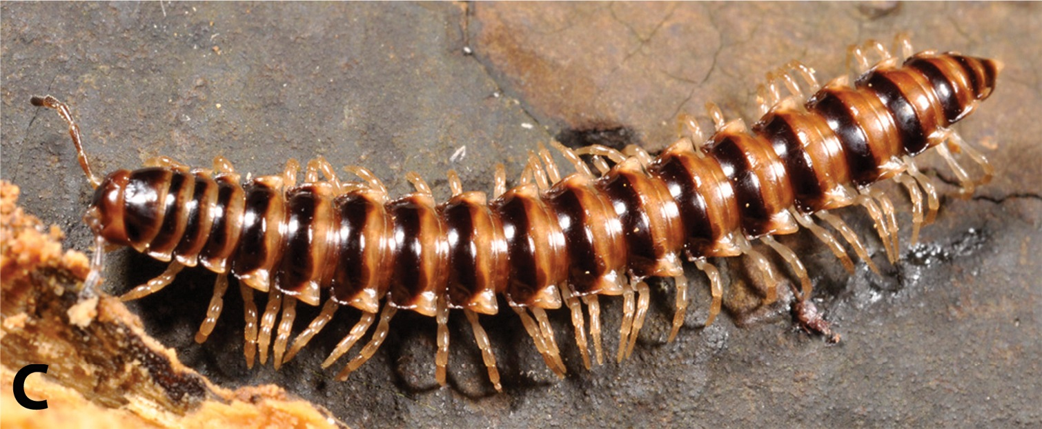 Chamberlinius uenoi comb. n. (live on Iriomote-jima Island)